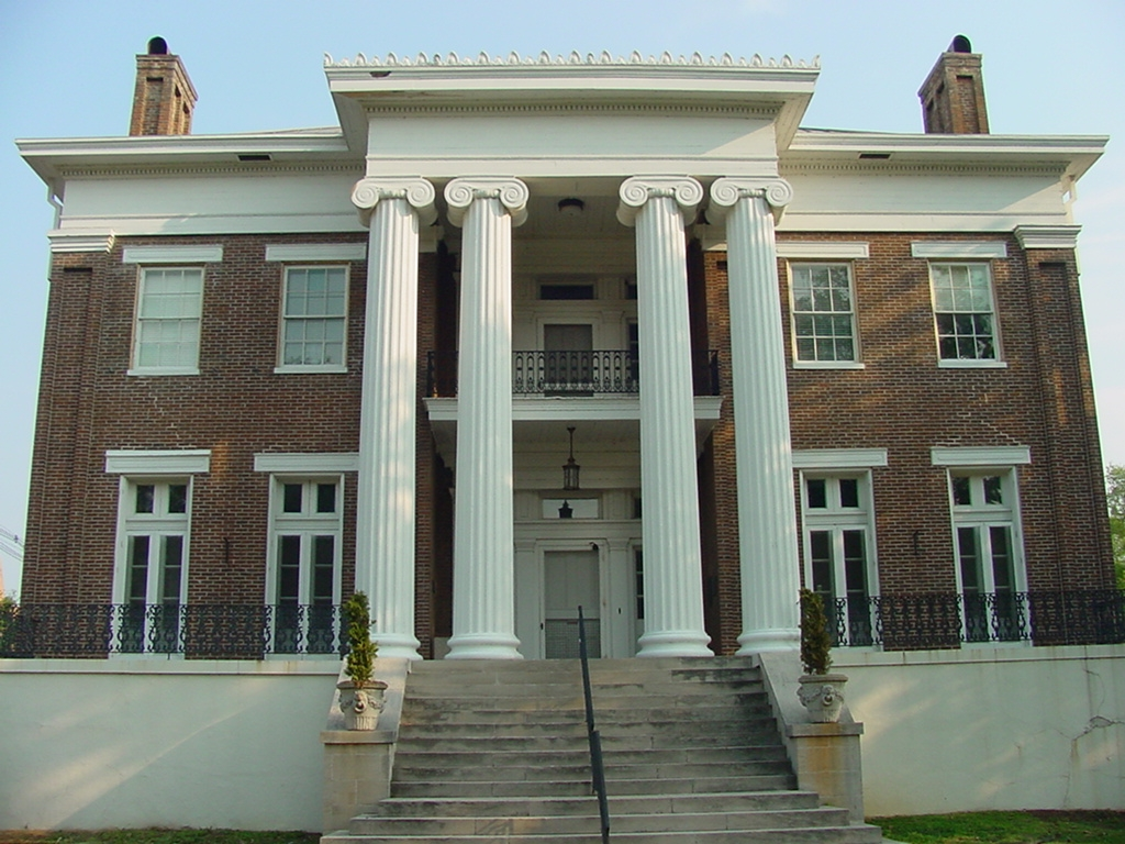 Rogers Hall — the 1854 Antebellum "Courtview" residence, on the University of North Alabama campus in Florence, Alabama. Taken by me on May 27, 2007.